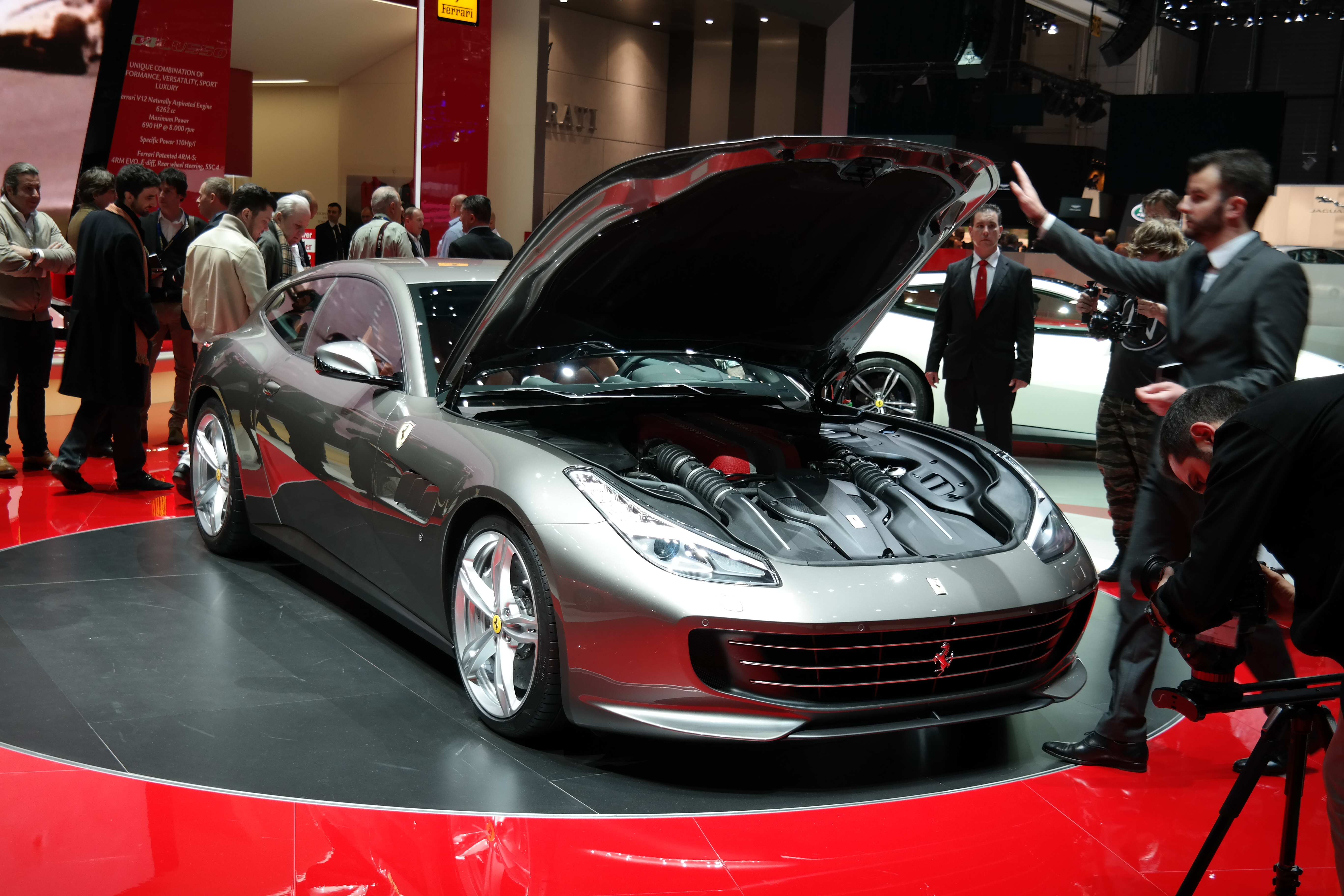 Geneva Motor Show 2016 (photo taken on the first press day)